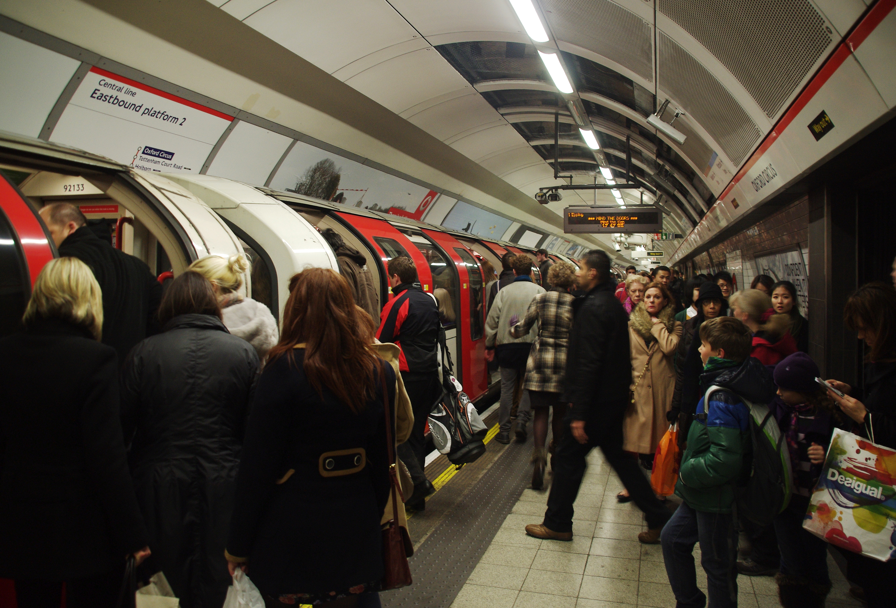 A 1992 stock London Underground Central Line unit calls at Oxford Circus with an eastbound service from West Ruislip.